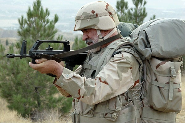 Brigadier General Nur-Ali Shushtari wields the KH-2002 while dressed in Iranian-made Desert Camouflage Uniform BDUs. PS - I'm posting this based on the upload date. Since he passed away in 2009 due to being killed in a bombing attack, I'm assuming that the image was first done in 2011 since I've been other FARS-uploaded images that date back to at least the same year.